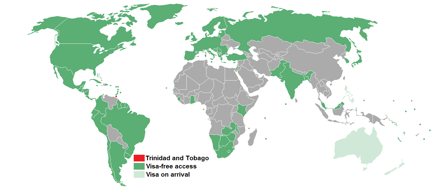 Visa policy of Trinidad and Tobago Trinidad and Tobago Visa-free access Visa on arrival